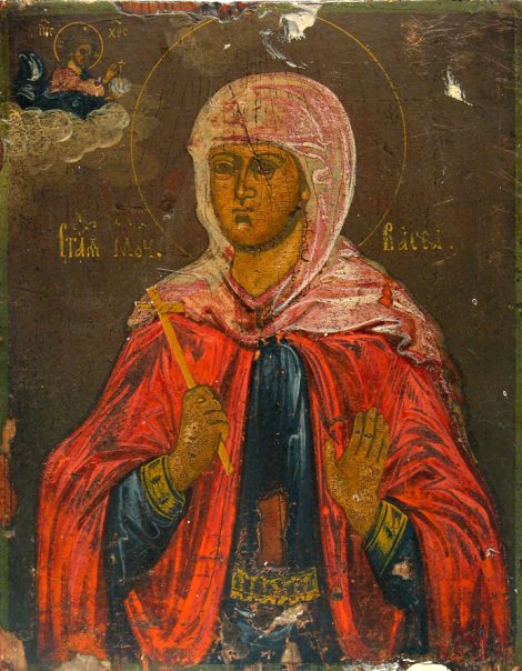 Saint Vassa of Thessaloniki Icon